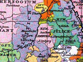 Duchy of Limburg (pink) around 1400